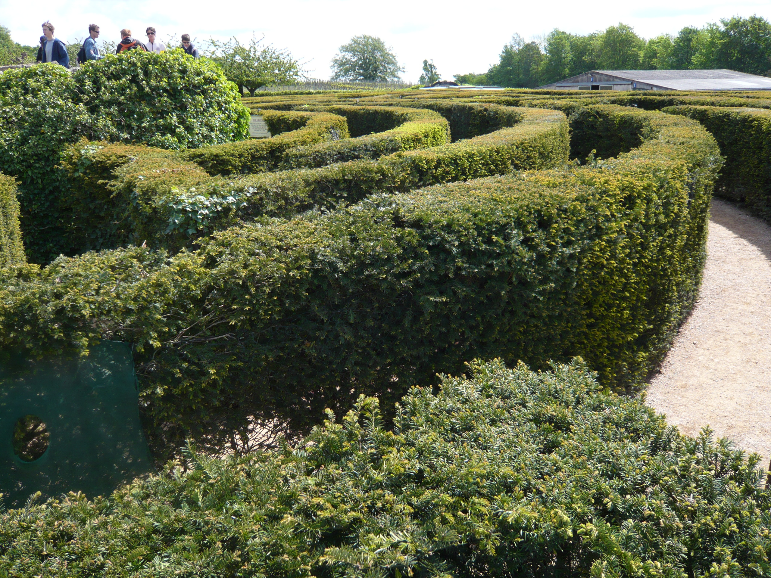 Leeds Castle hedge mazes — England.